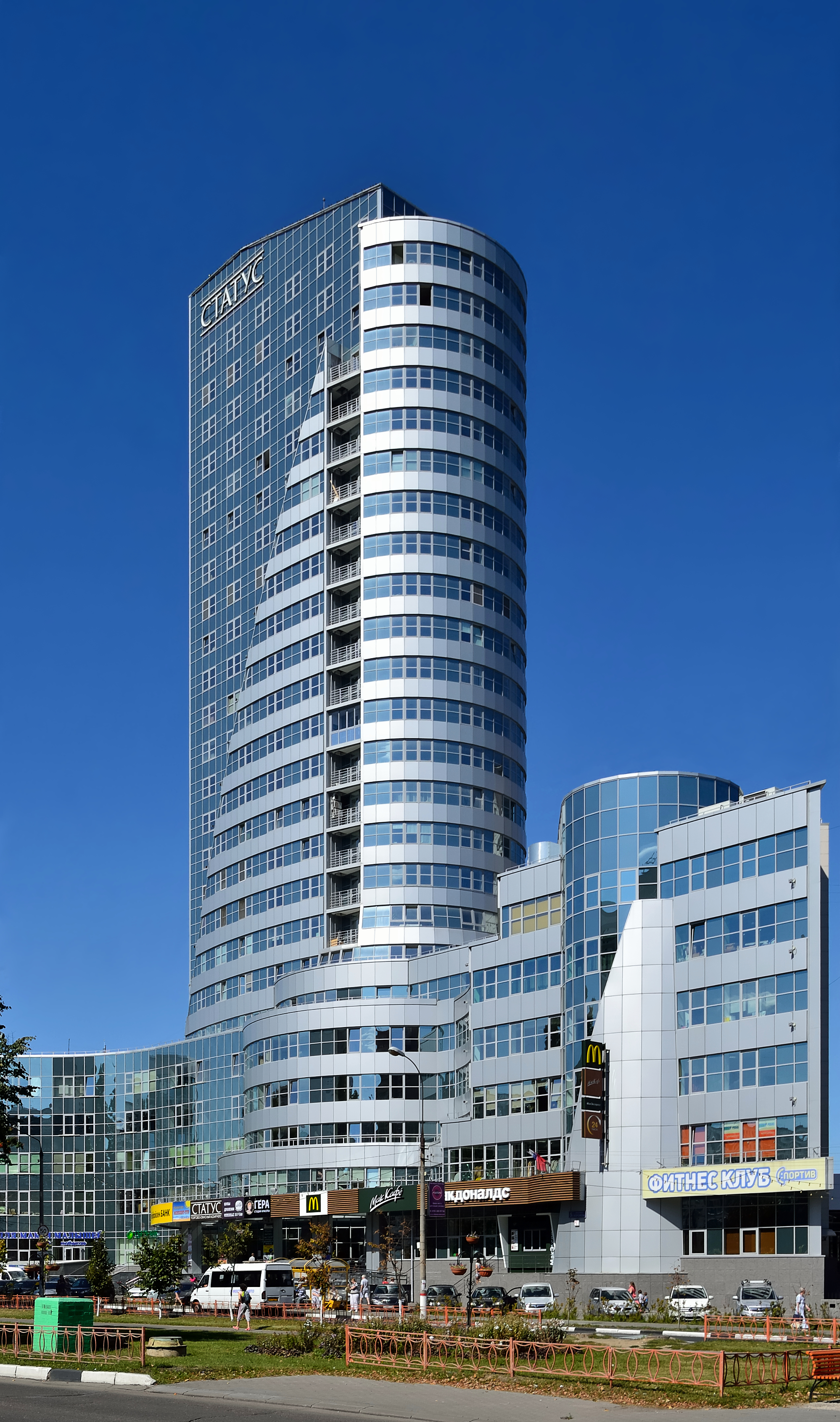 Korolyov, Moscow Oblast. The Status business centre and housing estate. 2014. A view from Prospekt Korolyova.